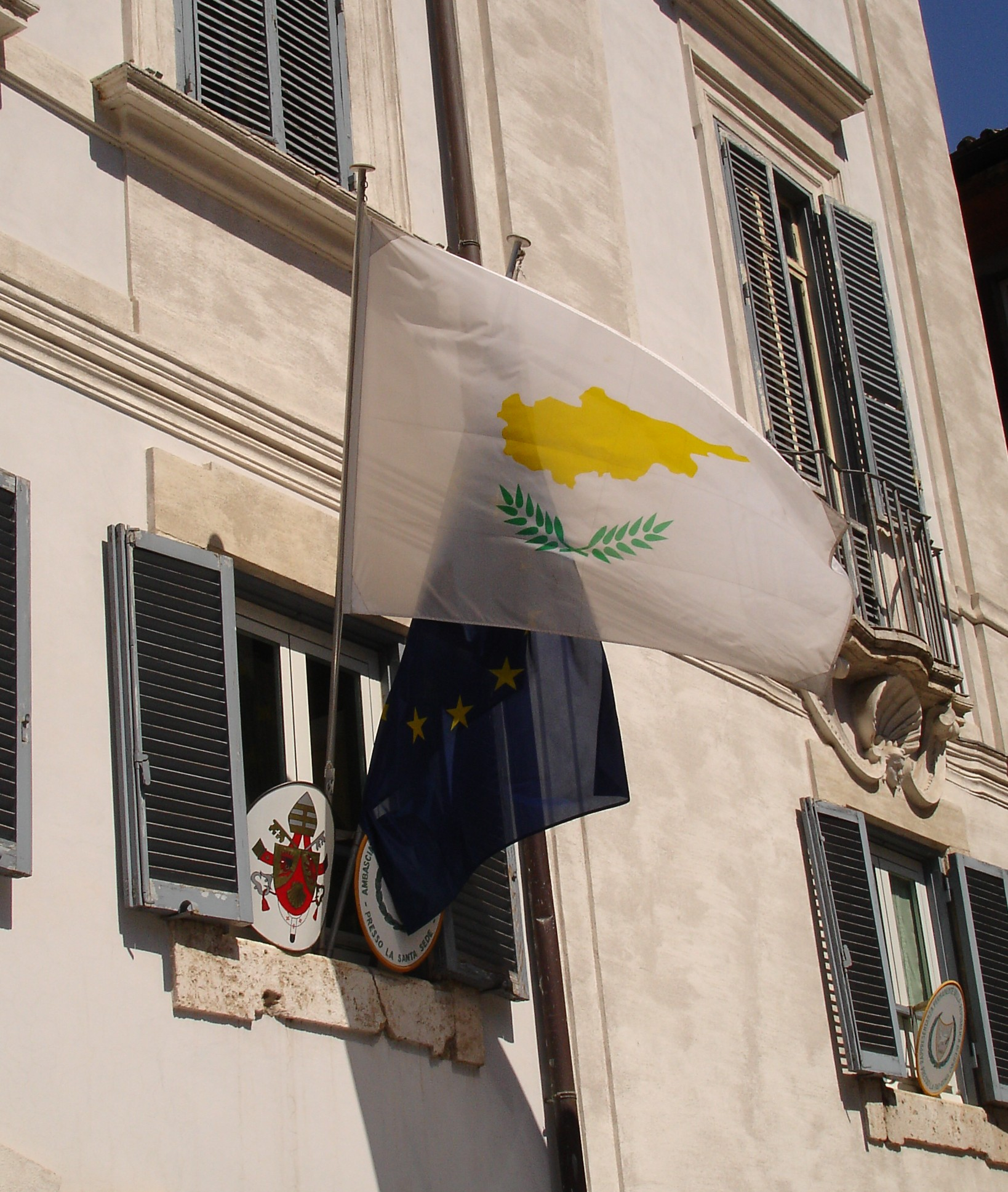 Embassy of Cyprus in Rome